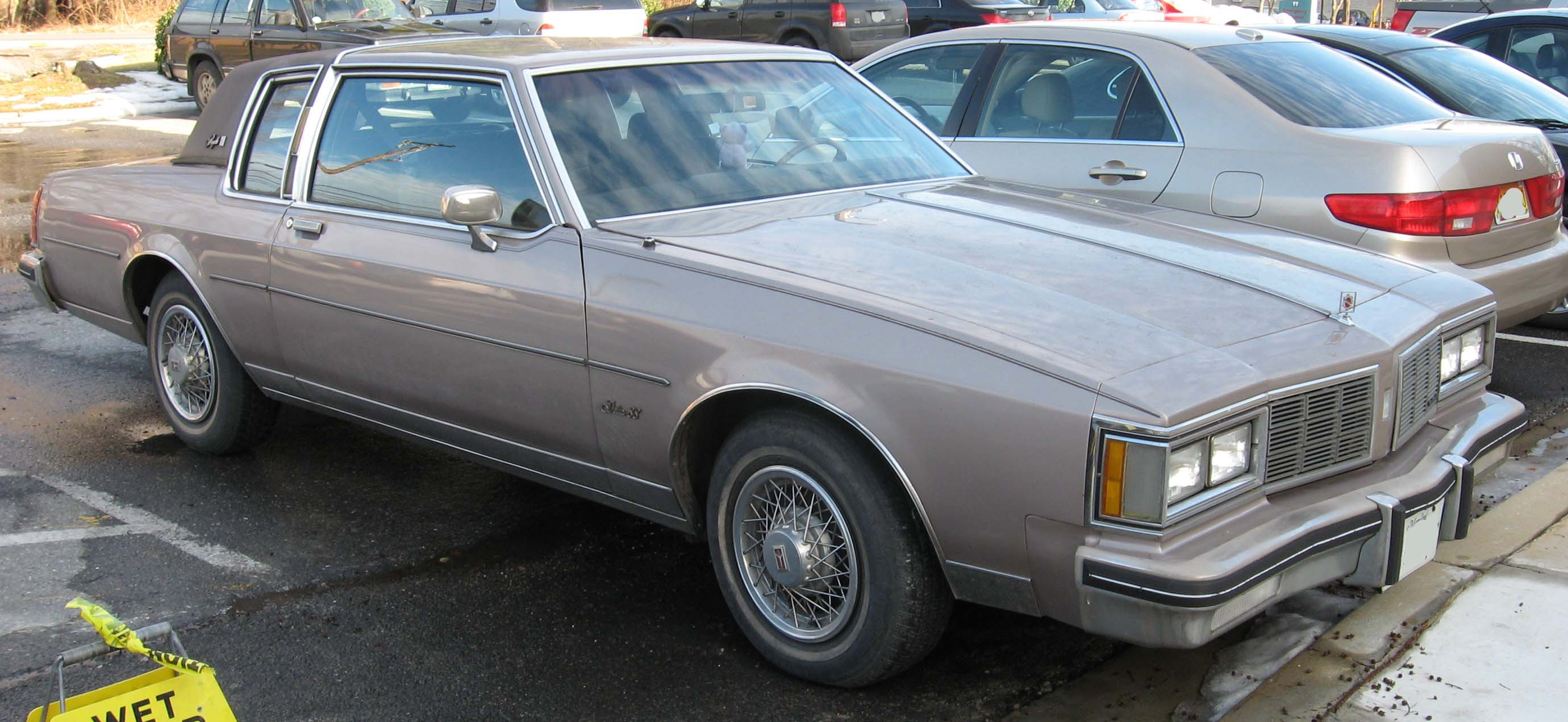 1983 Oldsmobile Delta 88 Royale Brougham photographed in USA.